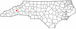 Category:North Carolina Dot Maps